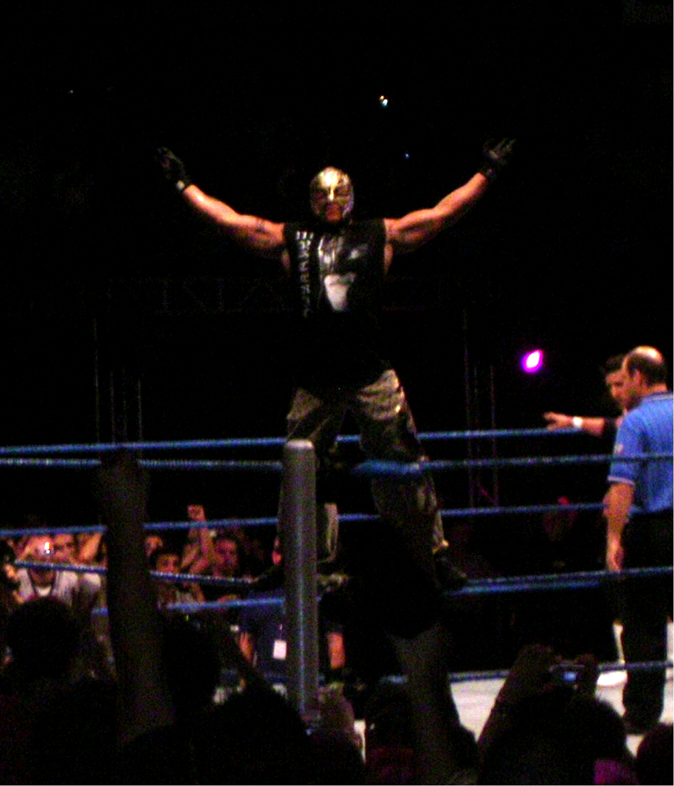 Rey Mysterio on WWE Down'N'Dirty Tour in Florence (Italy)